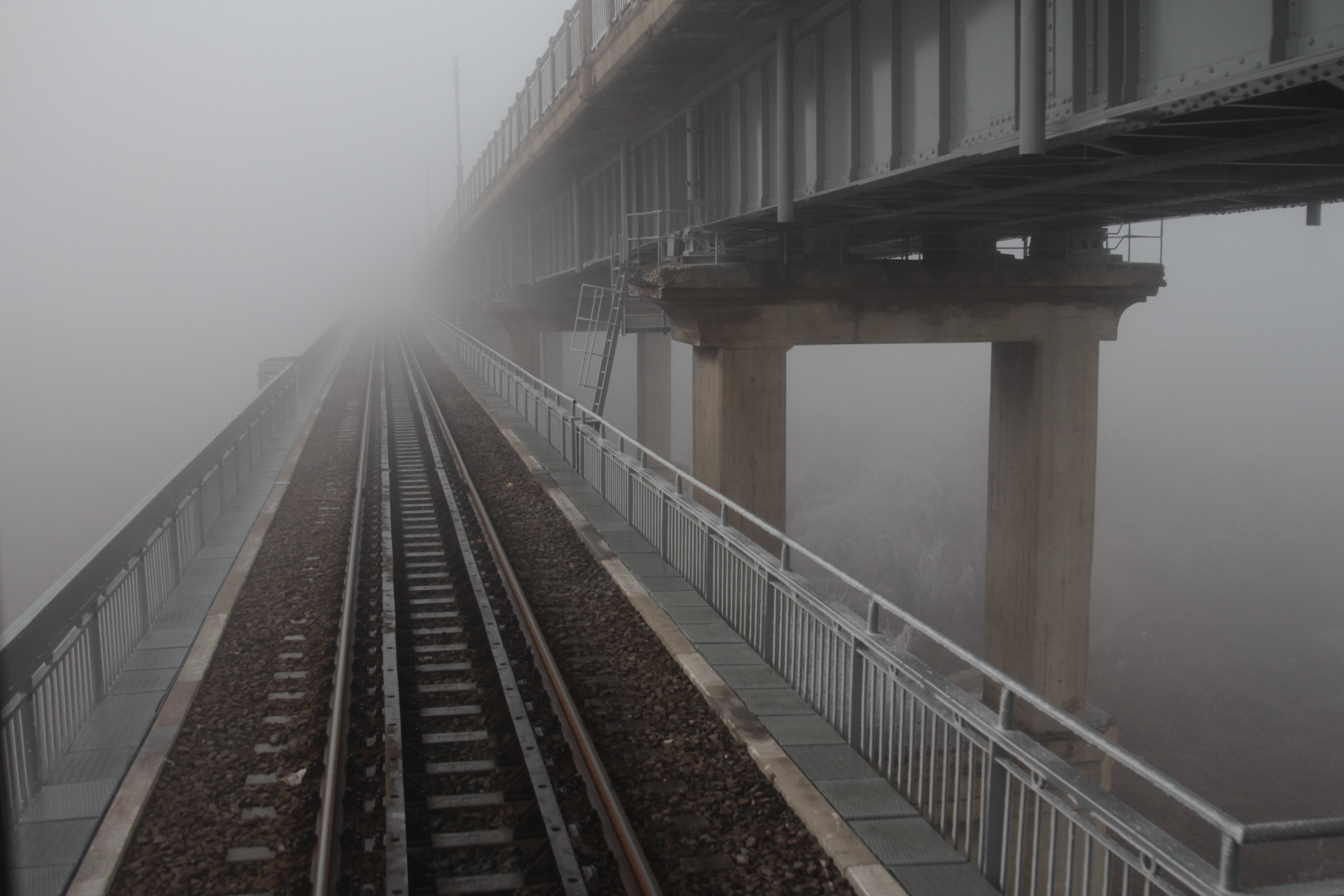 Danube Bridge (formerly Friendship bridge) at the Romanian-Bulgarian border over the Danube, seen from the back of the Bosphorus Express train (Bucarest-Istanbul)